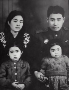 Family photo of a Soviet officer at the time of his presence in North Korea in 1946.